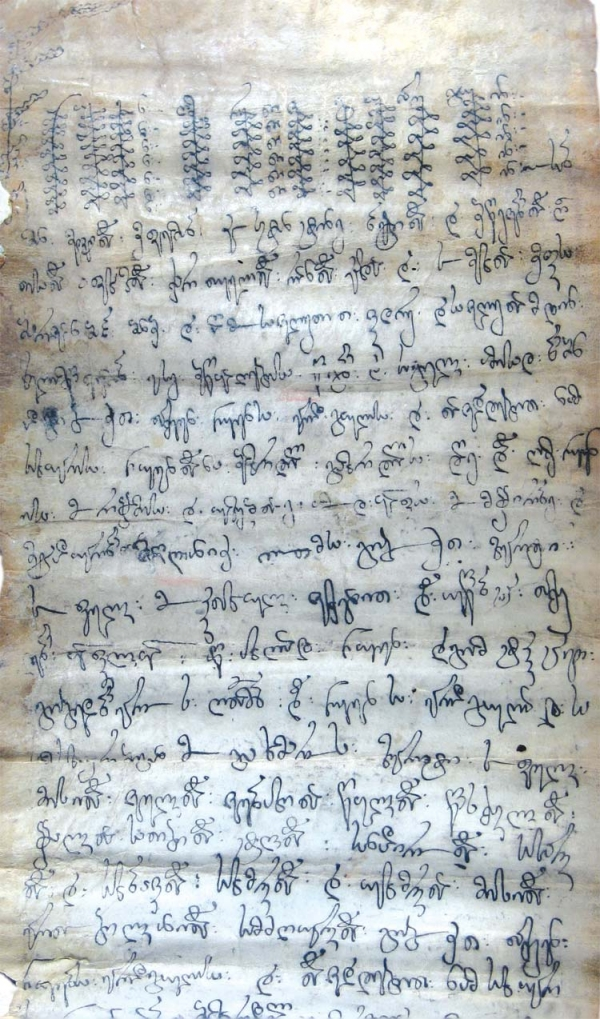 Royal charter of King Constantine II of Georgia